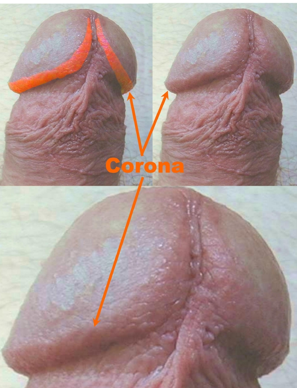 The glans of a human penis with the corona highlighted in orange. View from behind